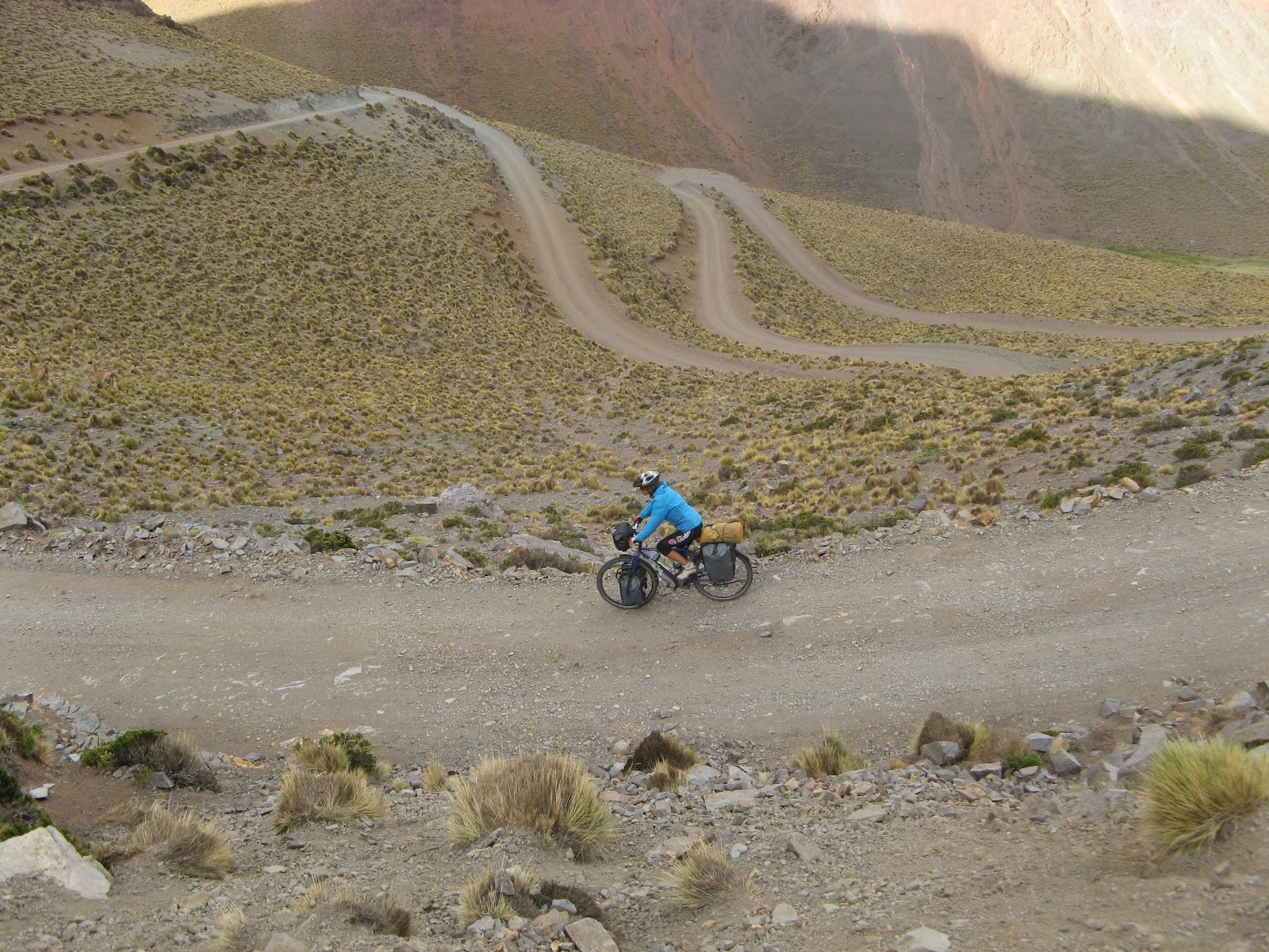 Abra del Acay, Salta province (Argentina).